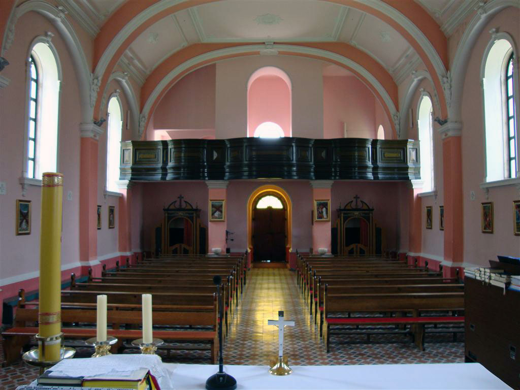 Interior of All Saints church in Livno